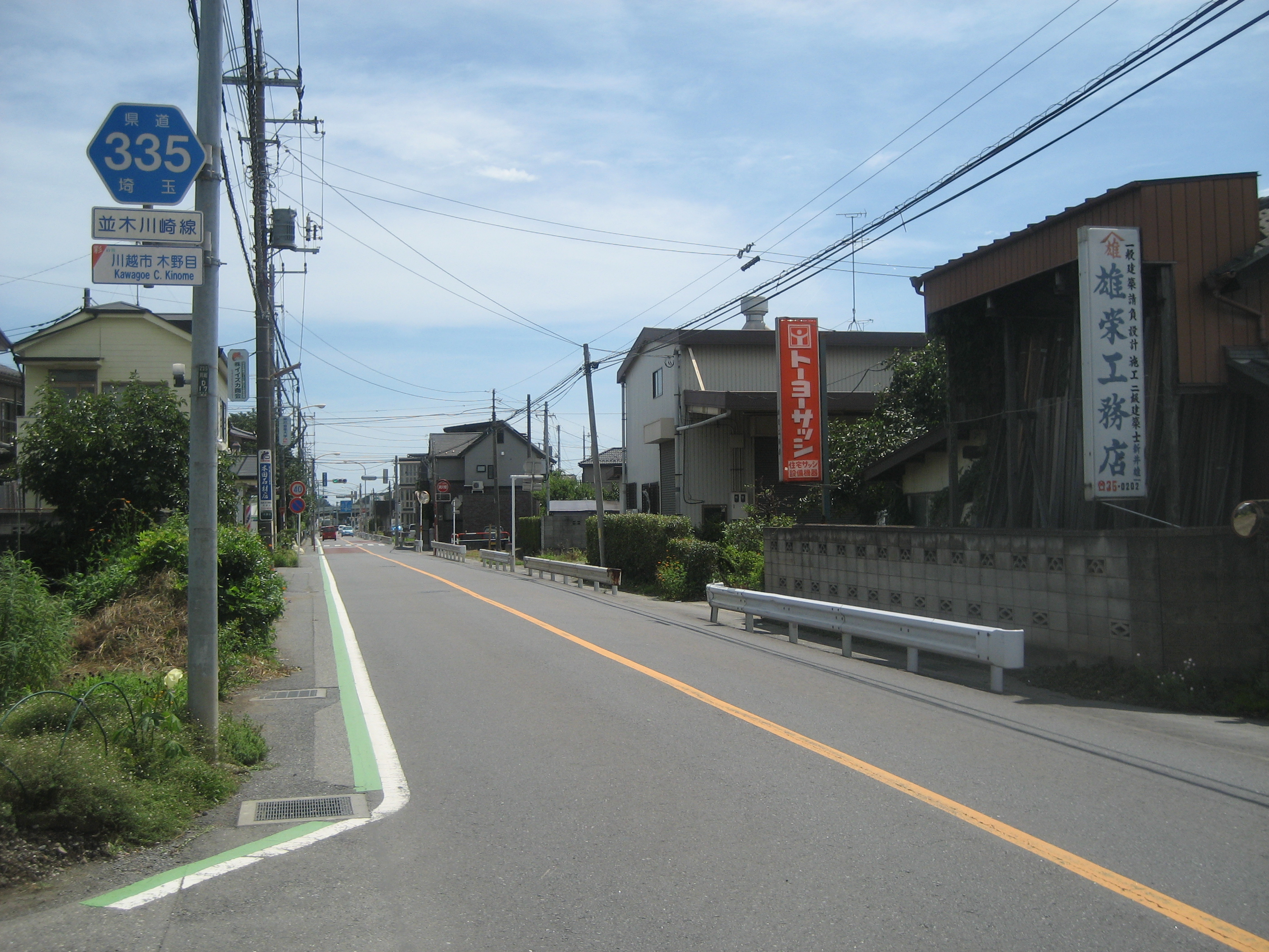 The Saitama Prefectural Road Route 335 in Kinome, Kawagoe City